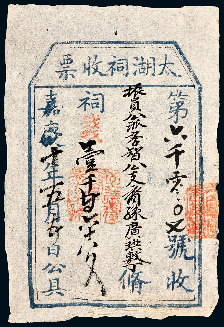 A private Chinese banknote issued by a private business under the reign of the Manchu Qing Dynasty.